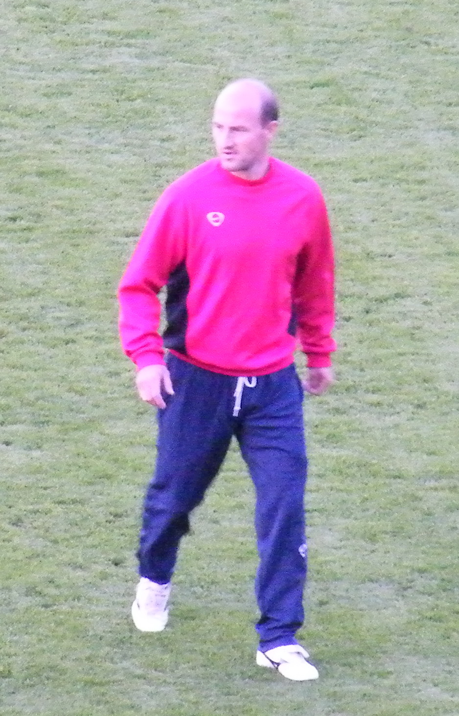 Zsolt Dvéri Hungarian football player